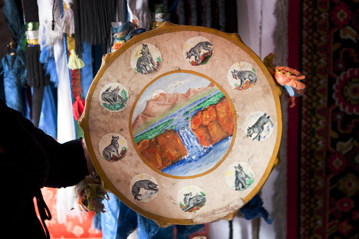 A shaman shows off her drum, which is used in most shamanic rituals.